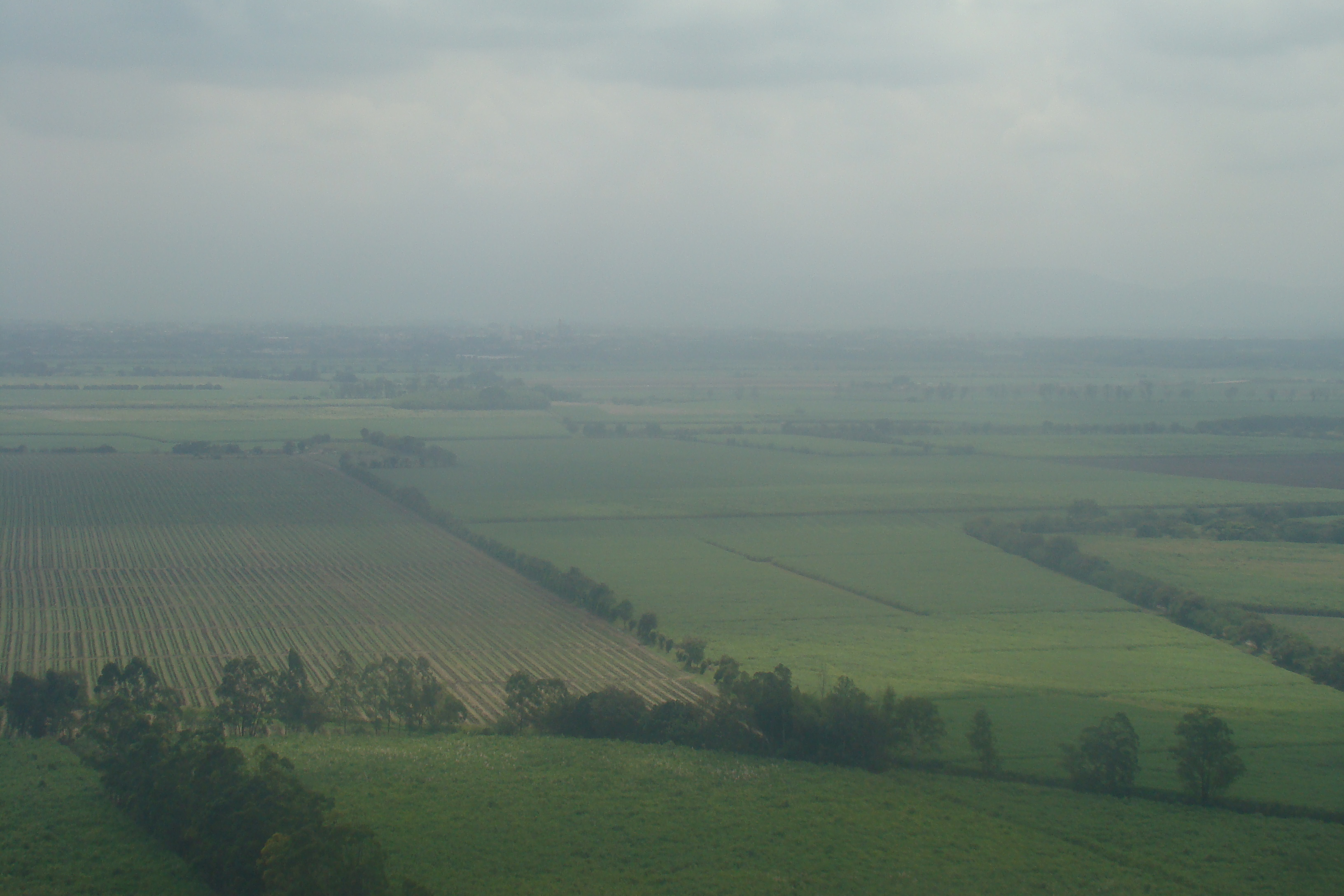 Sugar cane plantations near Palmira